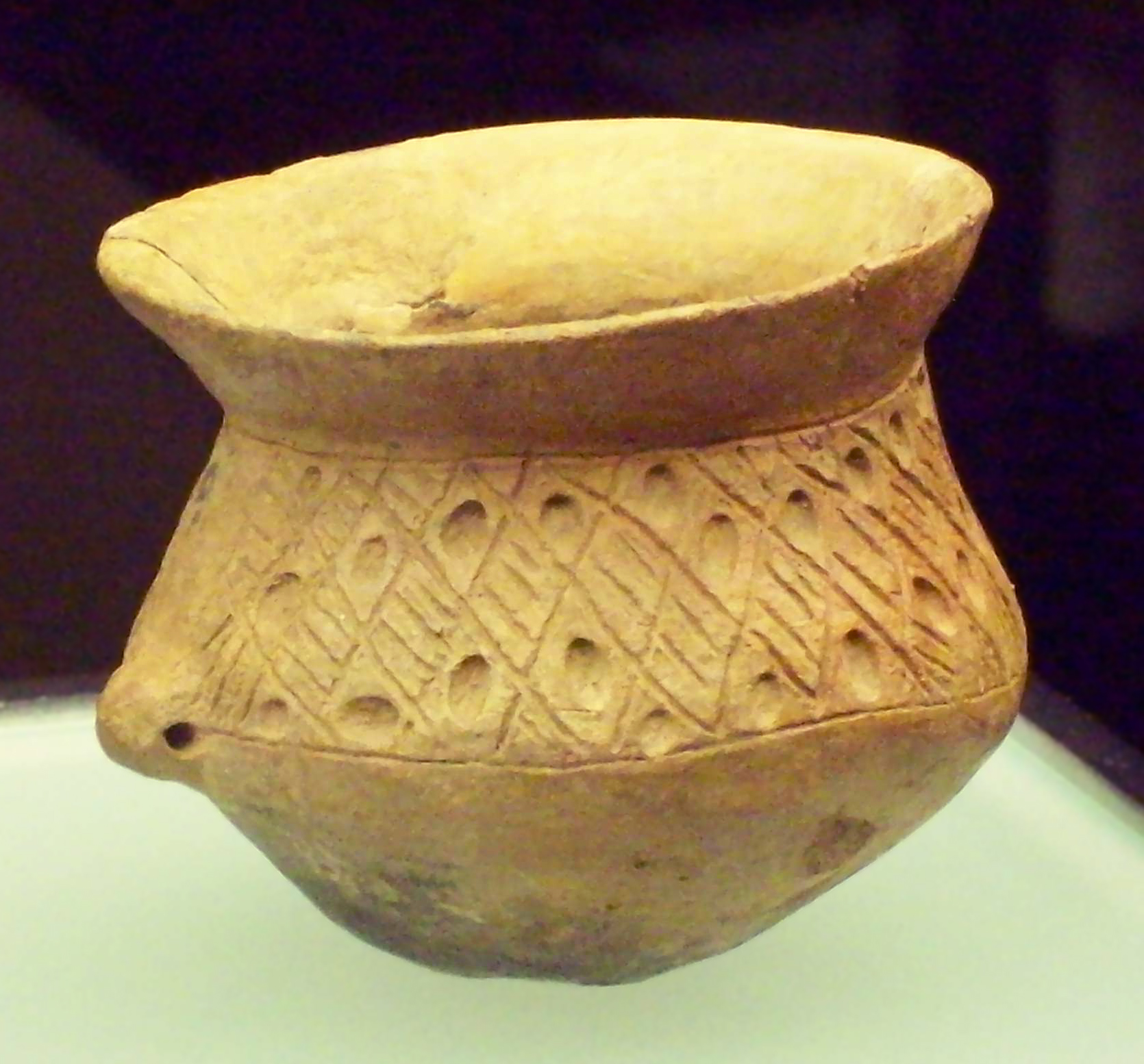 A vessel from the Late Bronze Age.